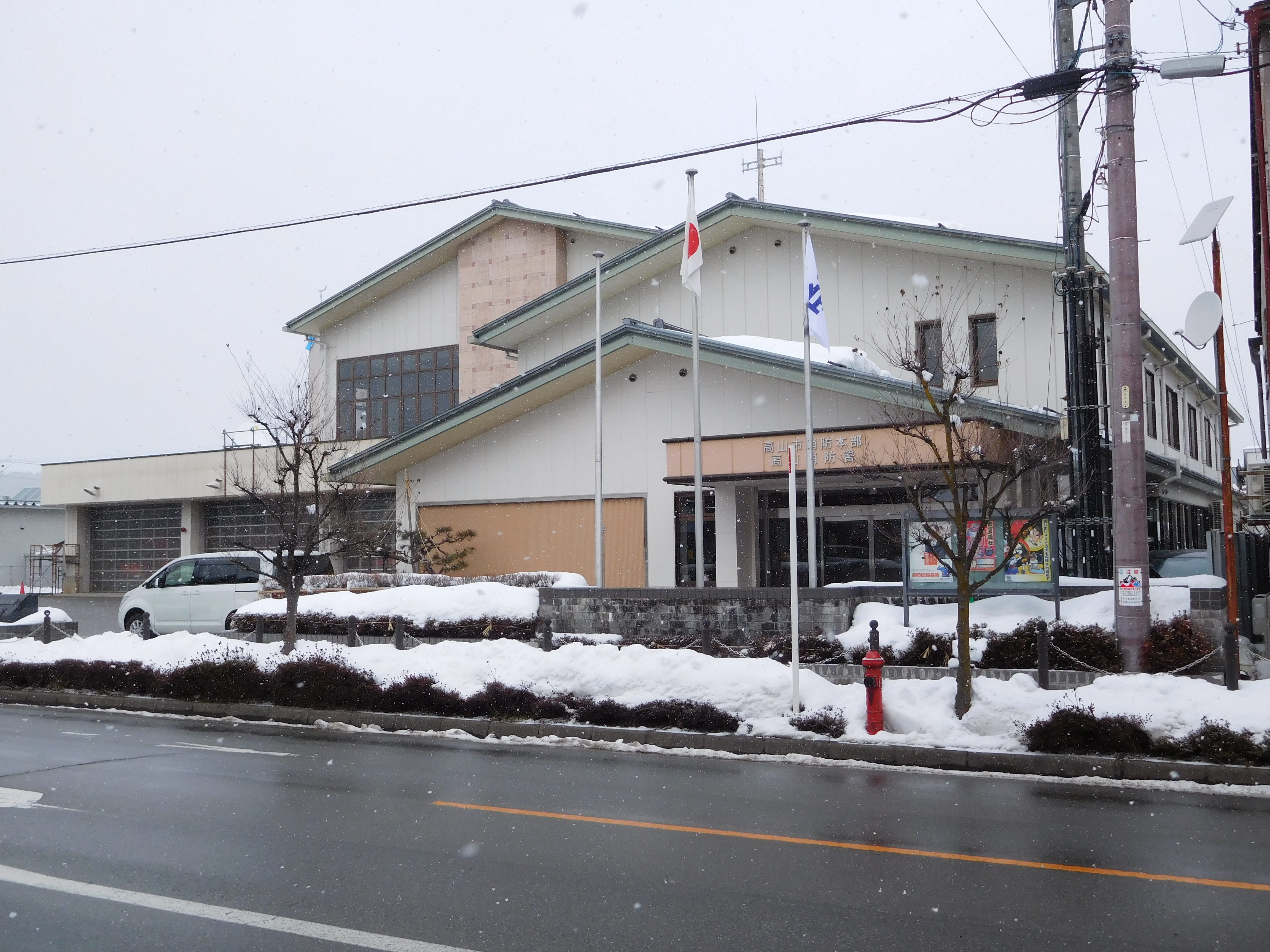 This is Takayama City Fire Department Headquarters in Takayama, Gifu, Japan.